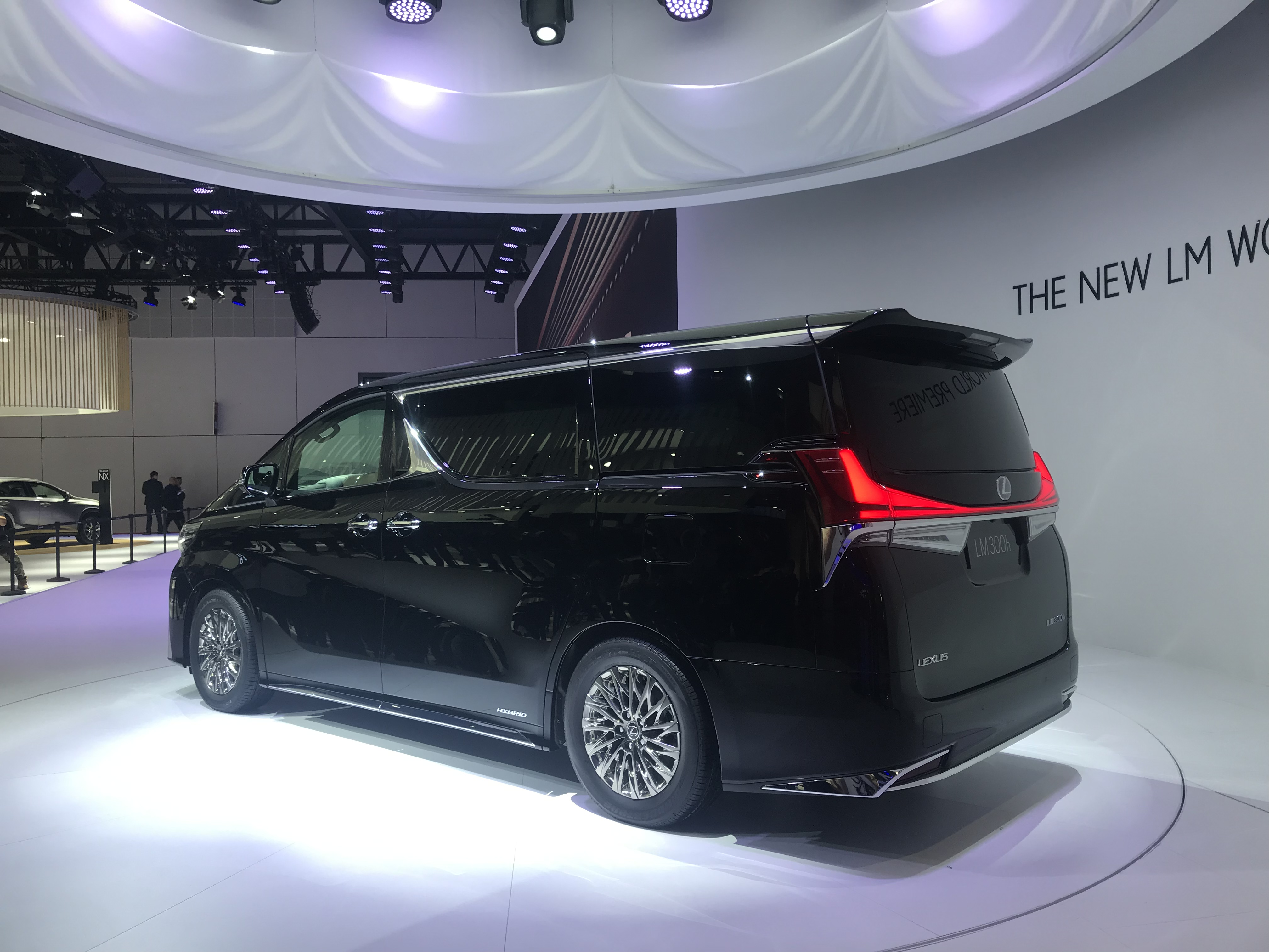 Lexus LM